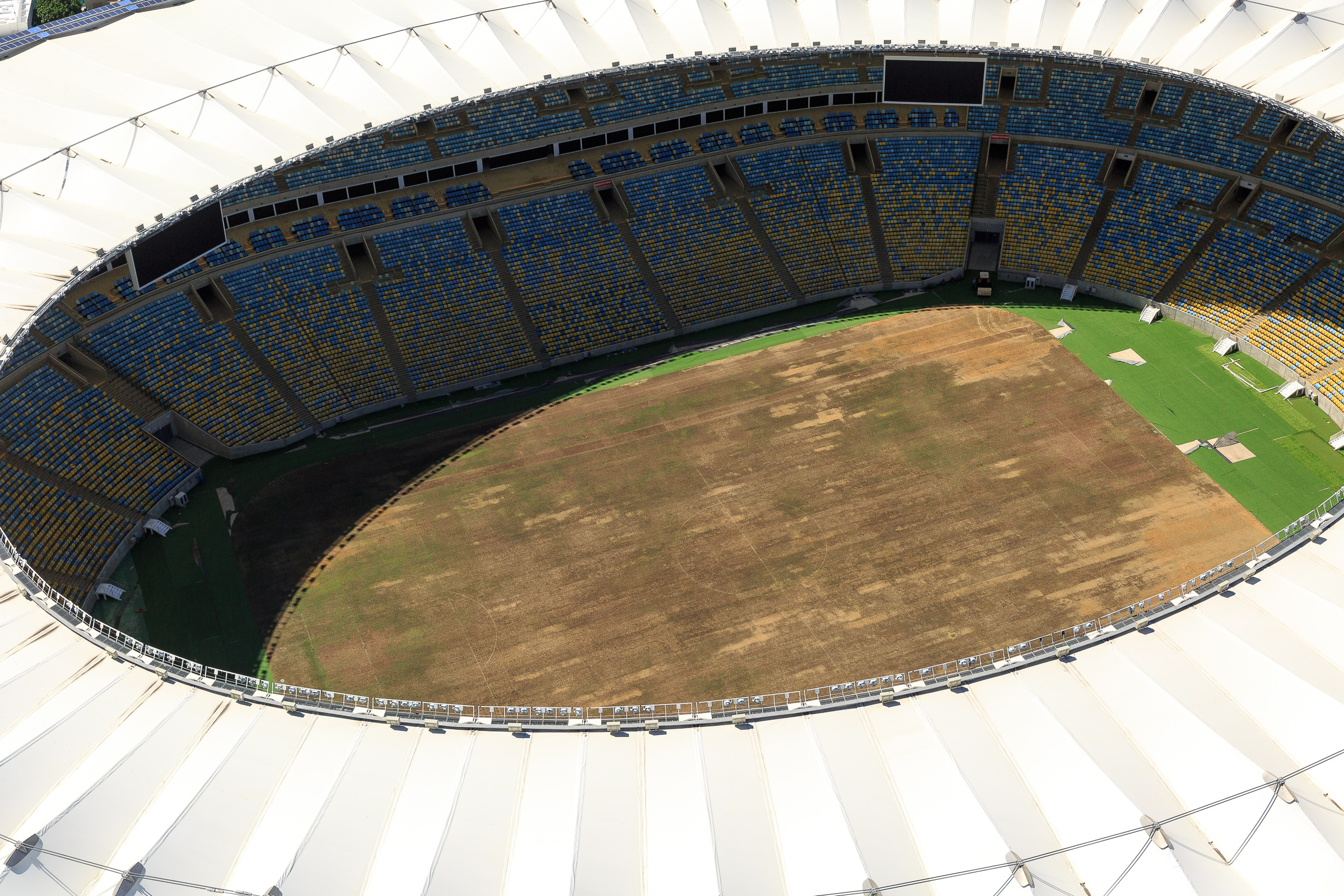 Vista aérea do estádio Maracanã com o gramado deteriorado, após os Jogos Olímpicos, localizado na cidade do Rio de Janeiro.